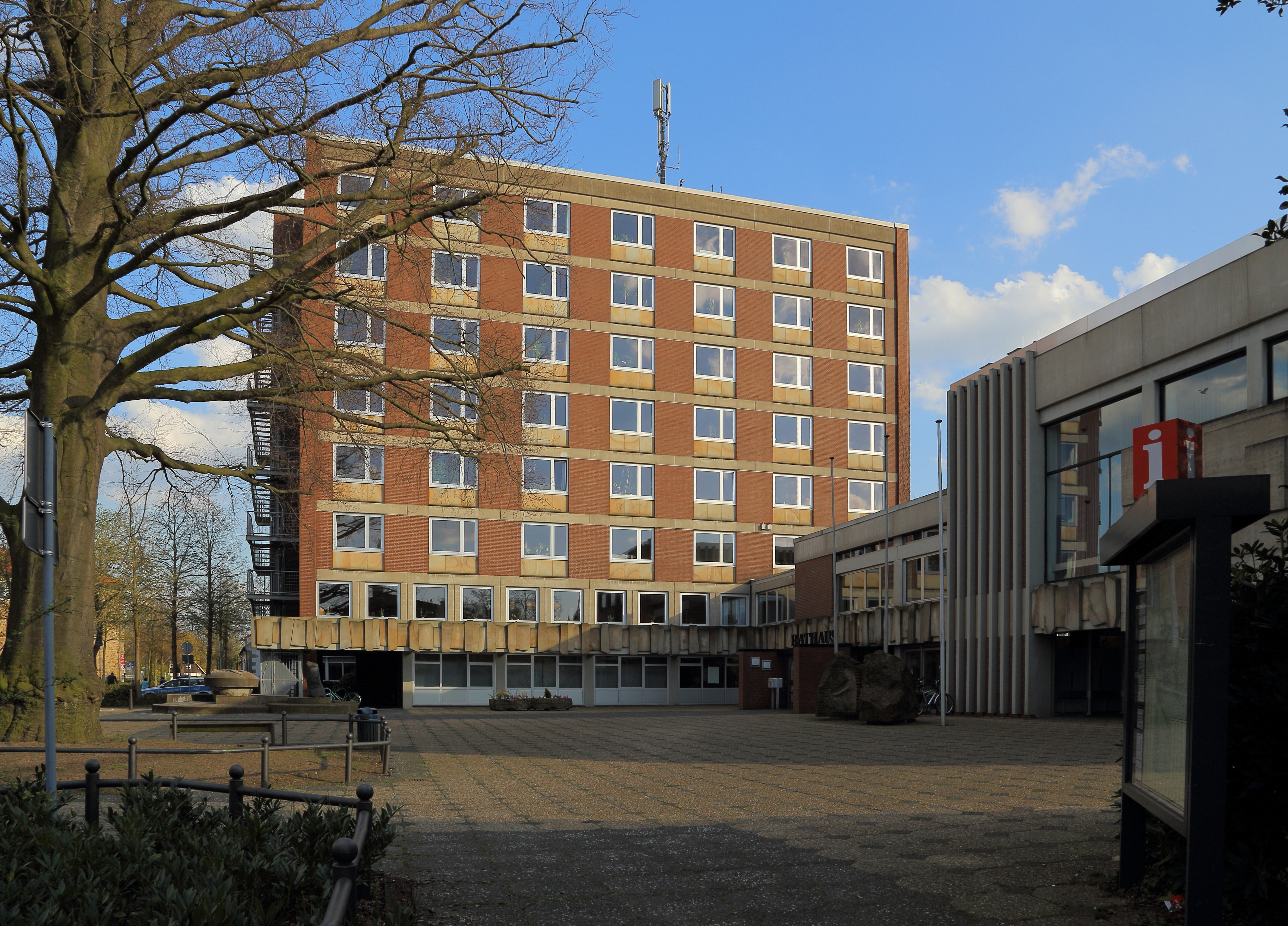 The Town Hall of Ibbenbüren, Kreis Steinfurt, North Rhine-Westphalia, Germany.